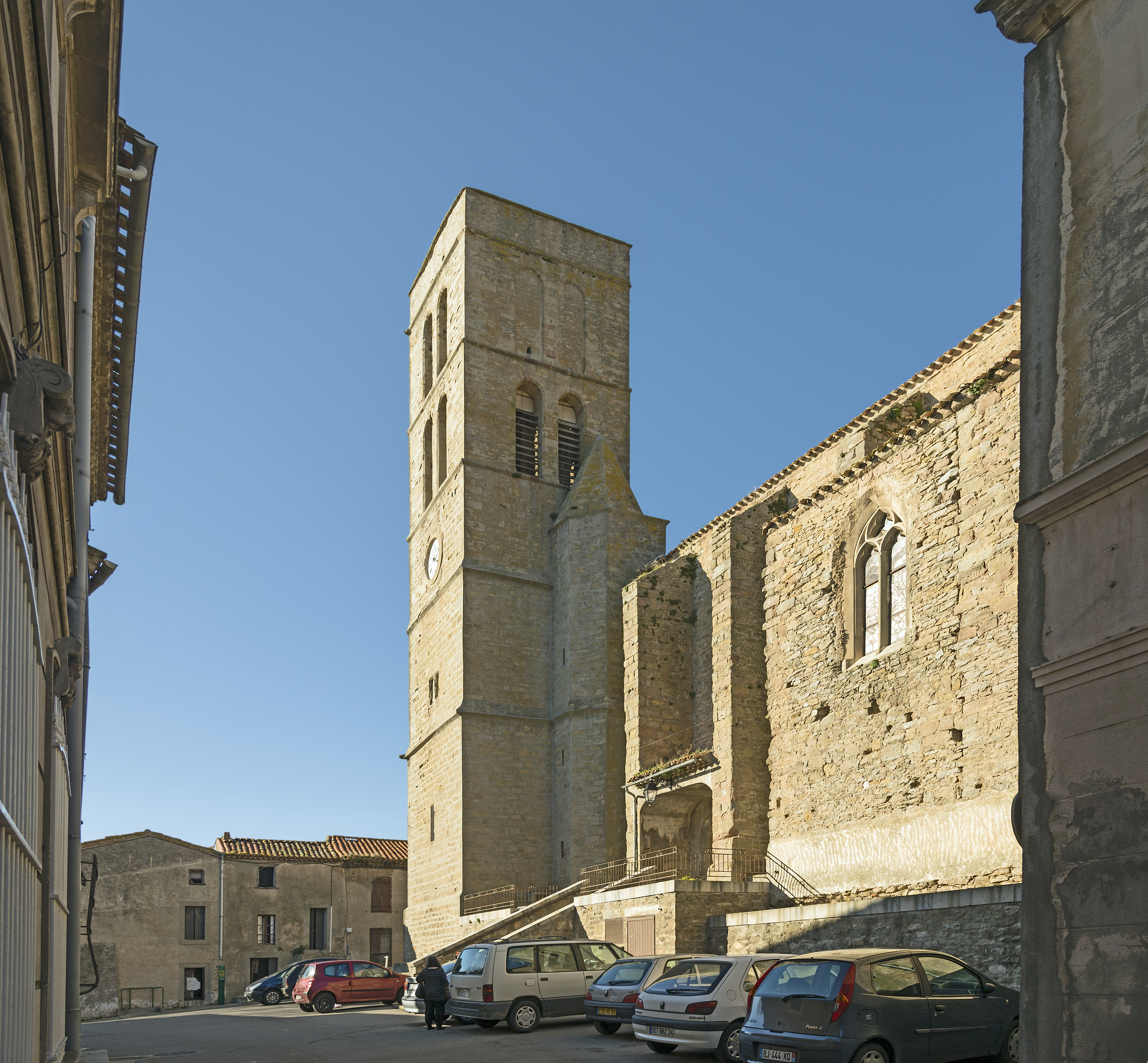 Church, Saint-Étienne from Trèbes. Facade and Bell tower.